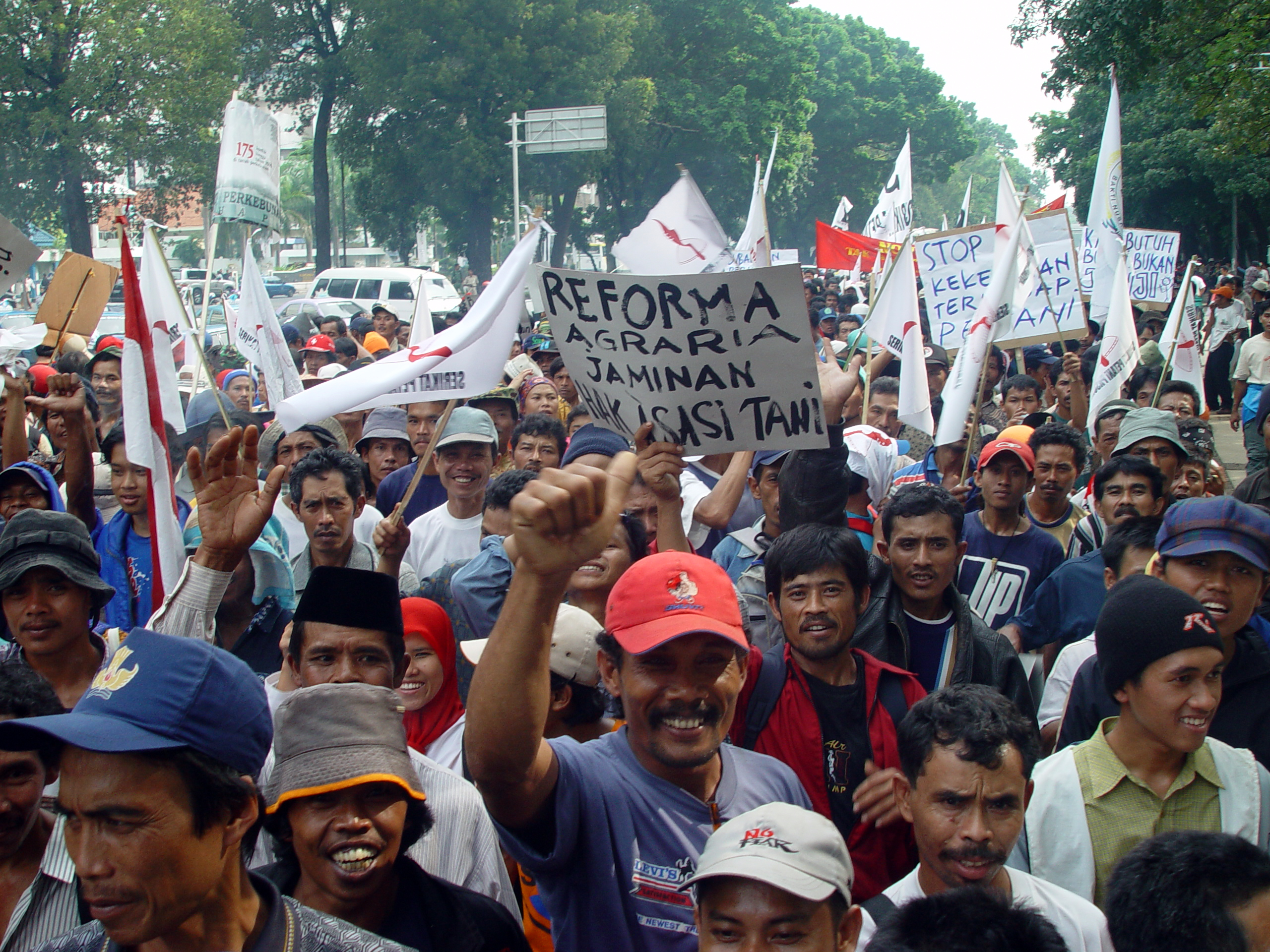 Farmer land rights protest in Jakarta, Indonesia.